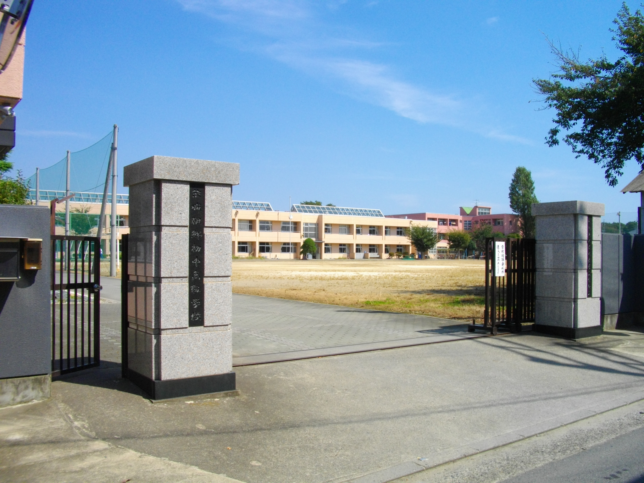 Ibaraki Korean Elementary, Junior and Senior High School